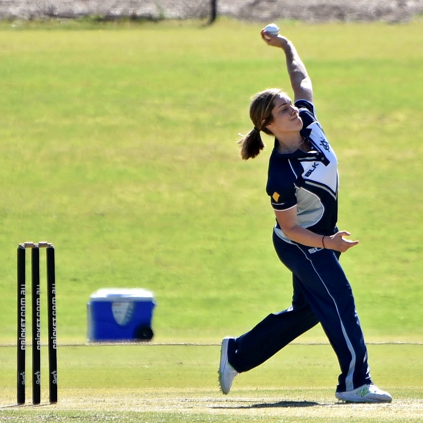 Sophie Molineux bowling for the Victoria Women cricket team during a WNCL clash against the South Australian Scorpions at Murdoch University Sports Oval in Perth